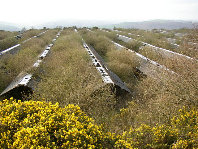 Abandoned mink farm, Upper Edge, Fixby, near Elland The OS map shows it as a large building 120m square, but it is actually about 15 (I didn't count them) long steel-framed sheds.